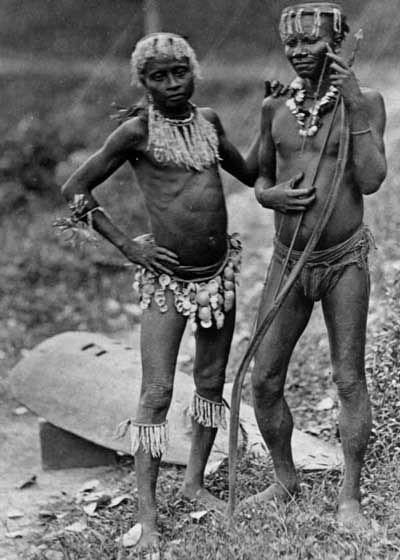 "One of the earliest existing photographs of Great Andamanese known: two men of an unidentified northern tribe. The man on the left is wearing a traditional cincture decorated with shells . The other on the right is wearing a piece of imported cloth along with more traditional strings - and this only 7 years after the British had set up shop in the Andamans at a time when only very few northern Great Andamanese had had any direct contact with the outsiders yet. How and where this picture came to be shot is unknown. It is possible that the British photographer insisted that the man on the left covered himself with the imported cloth for reasons of modesty. The hairstyle of the man on the right is not otherwise known among Andamanese. The man of the left has smeared his hair with clay (probably ochre) which was a common practice. The photograph is obviously staged, with a sounding board carefully arranged in the background. This is the only photograph of such board in a northern Andamanese context." Citation from Clothes, Clay and Beautycare (of Great Andamanese people), by George Weber